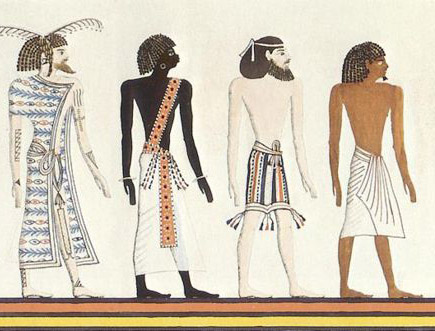 Depicting (from left): a Berber (Libyan), a Nubian, an Asiatic (Levantine), and an Egyptian. Drawing by an unknown artist after a mural of the tomb of Seti I; Copy by Heinrich von Minutoli (1820). Note that the skin shades are due to the 19th century illustrator, not the Ancient Egyptian original.